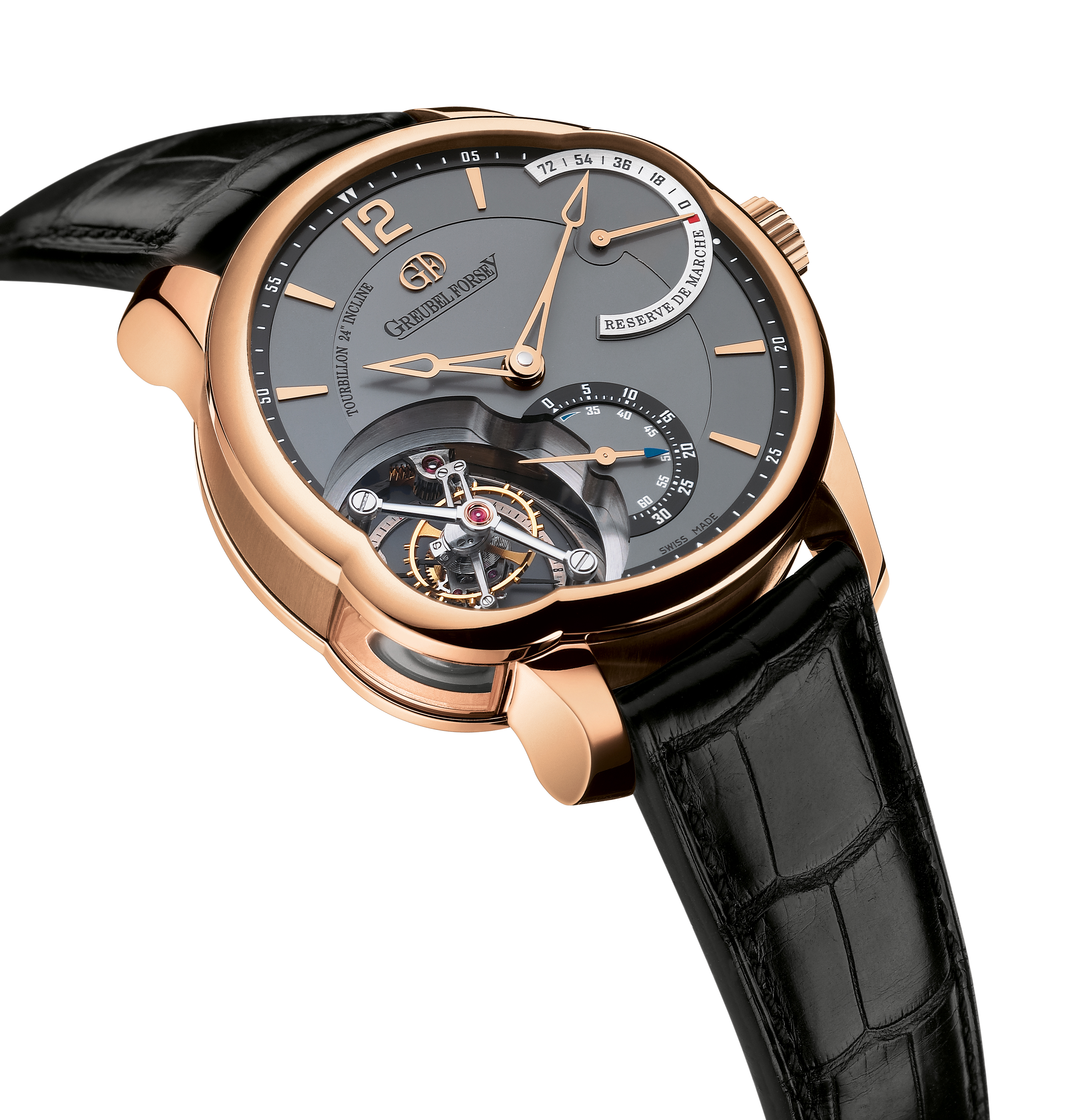 Greubel Forsey Tourbillon 24 Secondes Incline.